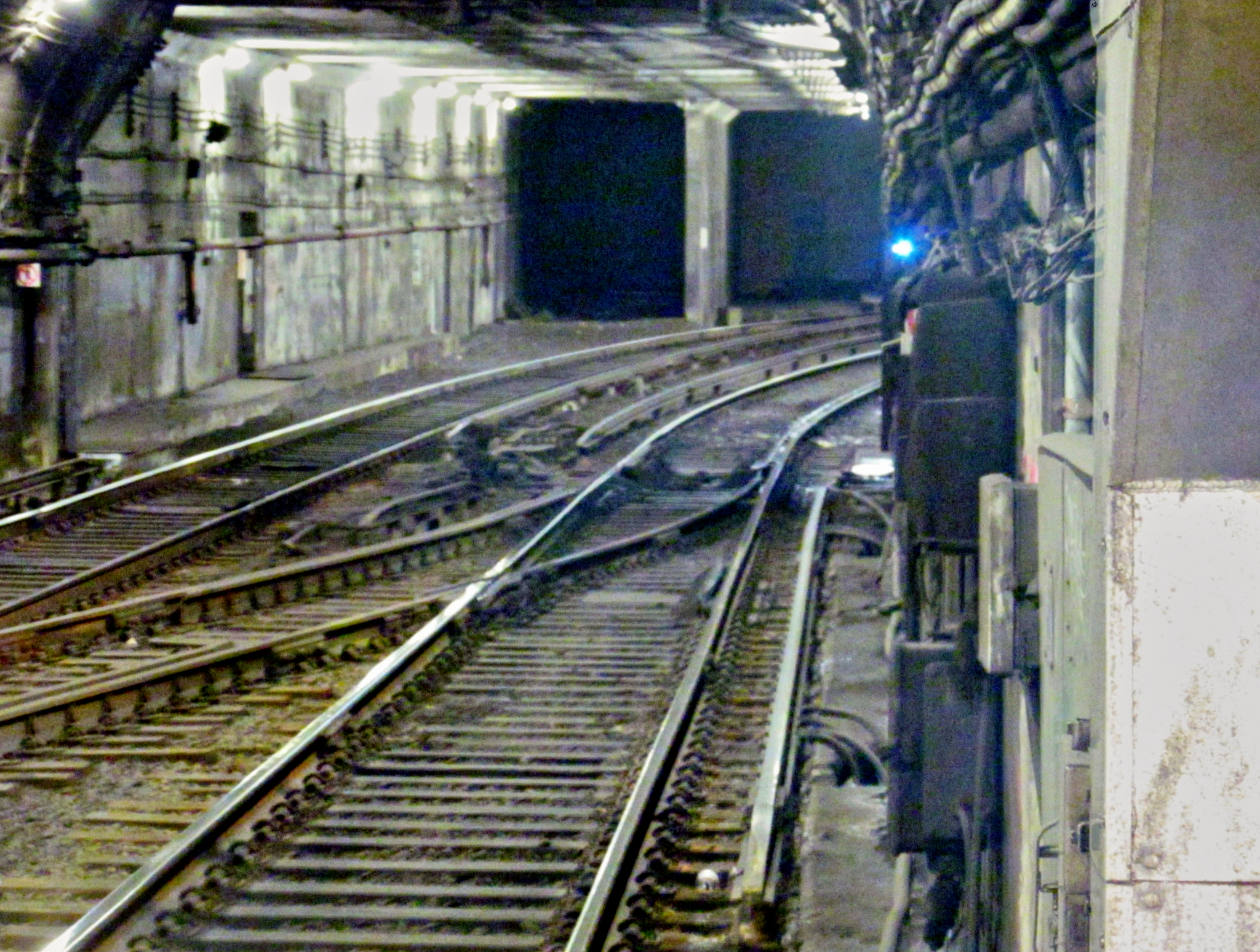 Junction of the original Washington Street Tunnel and the newer South Bay Tunnel under Stuart Street between Chinatown and Tufts Medical Center stations. The 1908-built Washington Street Tunnel heads left into the twin tunnels, where it climbs to a now-covered portal just east of Washington Street near Bennet Street. The South Cove Tunnel curves to the right; it was built around 1968, but did not actually house the Orange Line until 1987. After the South Cove Tunnel was finished and the Washington Street Elevated disconnected, the tunnels on the left were blocked off. This view was taken from the south end of the southbound platform at Chinatown.